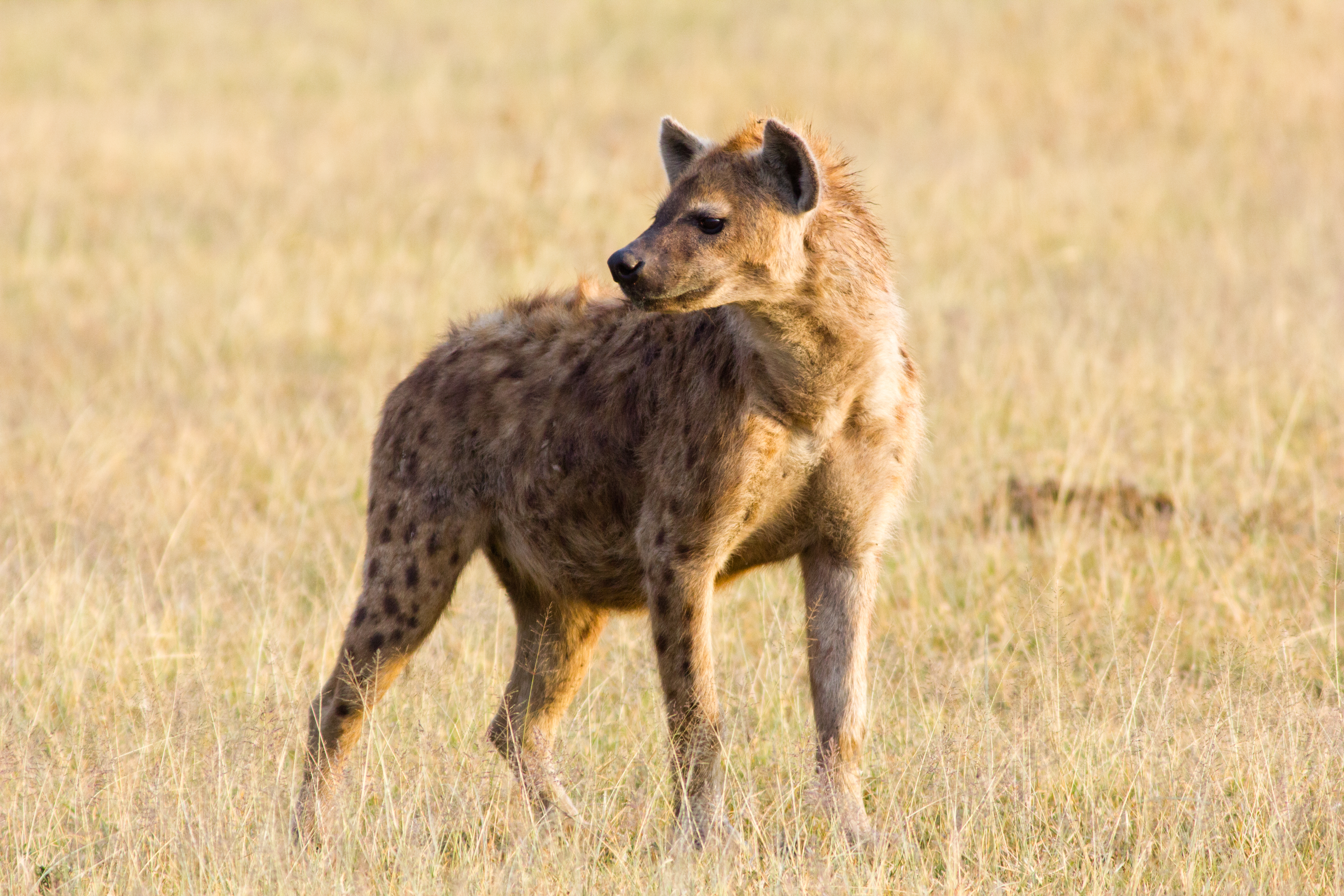 Spotted hyena in Serengeti National Park